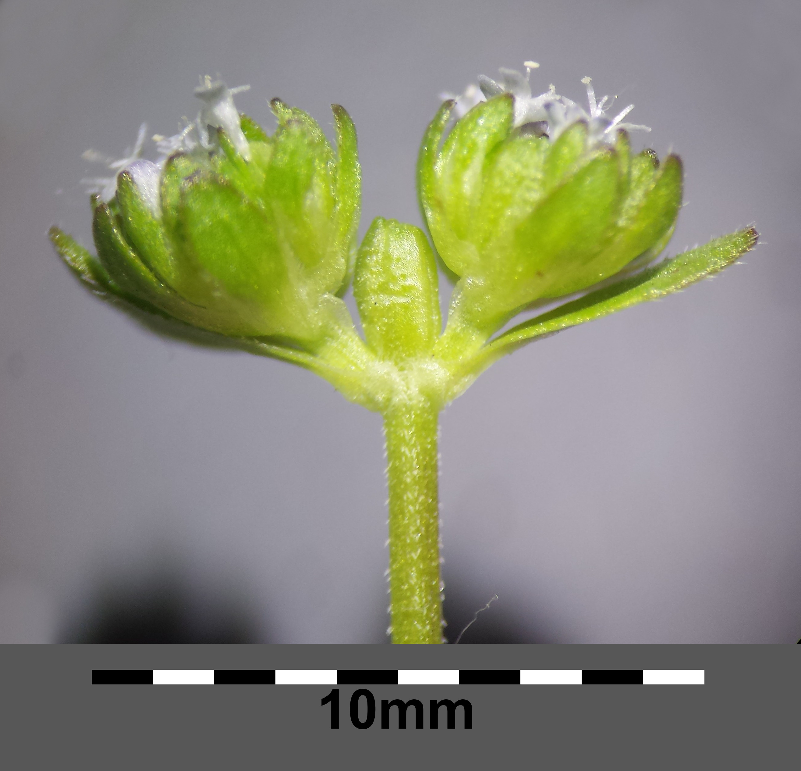 Inflorescence/infructescence Taxonym: Valerianella carinata ss Fischer et al. EfÖLS 2008 ISBN 978-3-85474-187-9 Location: Floridsdorf rail station, Vienna-Floridsdorf - ca. 160 m a.s.l. Habitat: ballast